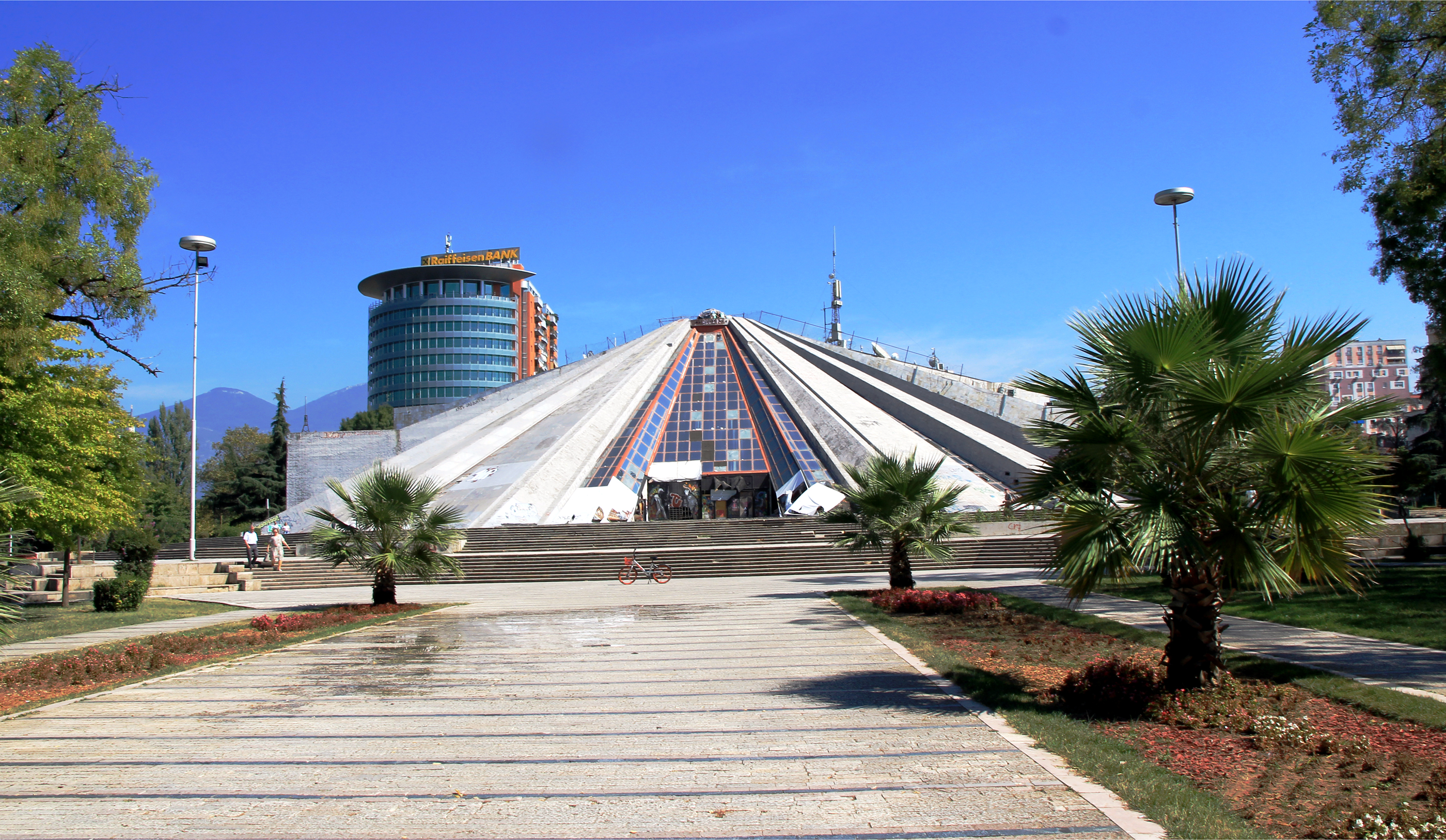 The international cultur centrum Pyramid of Tirana in the capitol of Albania, Tirana, September 2018